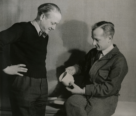 Photograph of the Finnish designers Kurt Ekholm (1907–1975) and Kaj Franck (1911–1989).